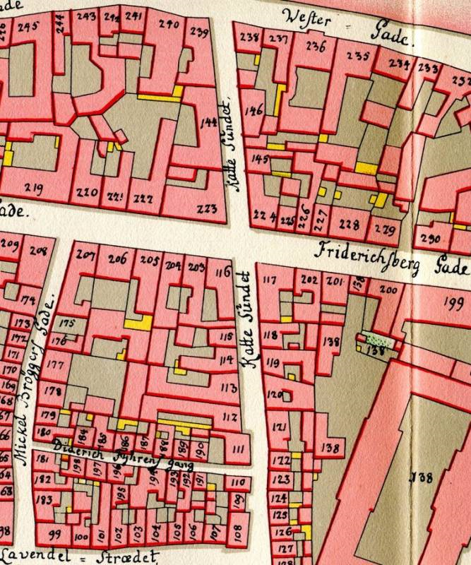 Kattesundet seen on a detail from Christian Gedde's district map of Copenhagen, Denmark